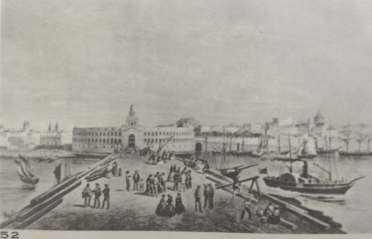 Dirección General de Aduanas (Argentina)